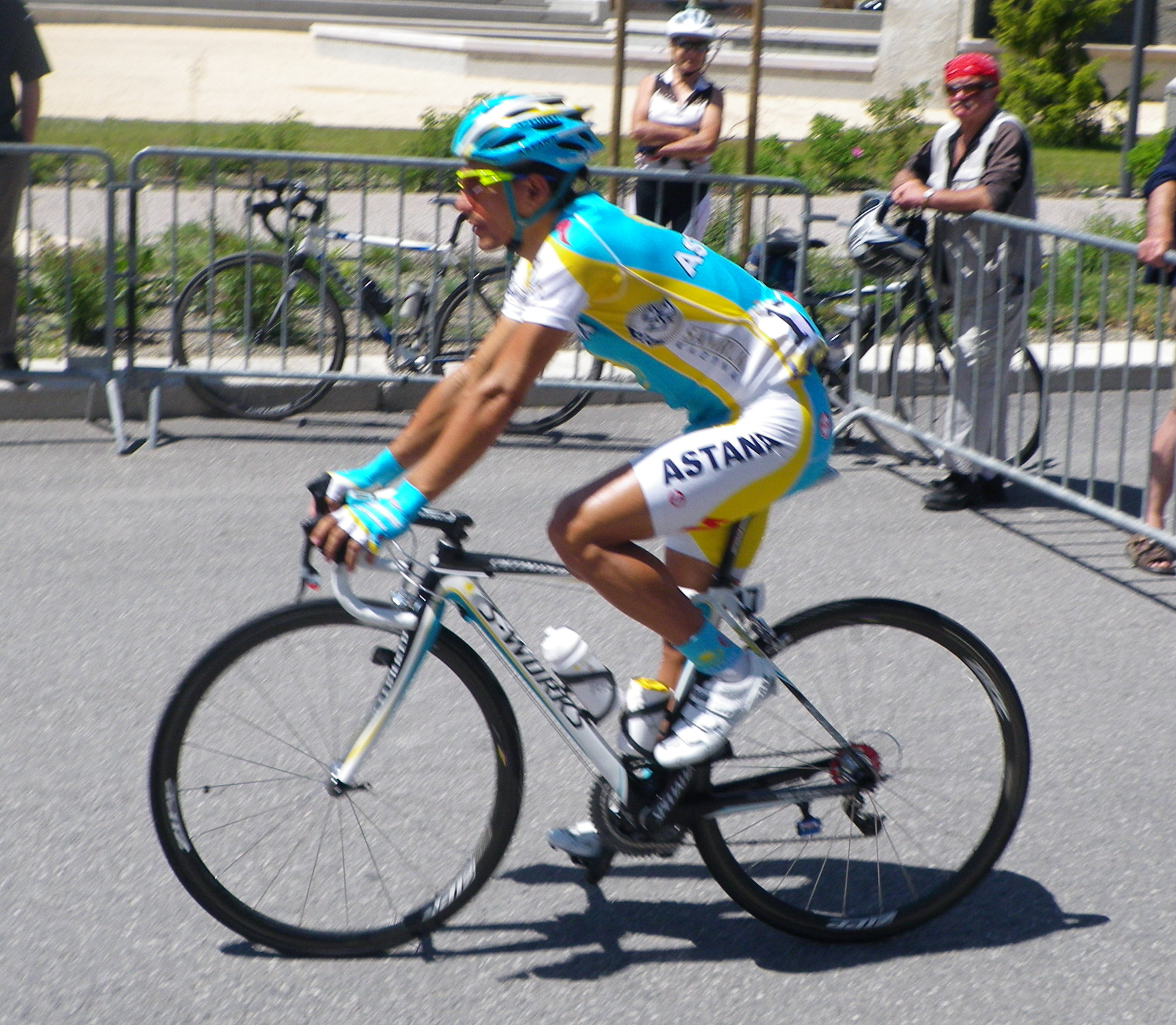 Paolo Tiralongo, road bicycle racer. Serre Chevalier. Critérium du Dauphiné Libéré 2010.